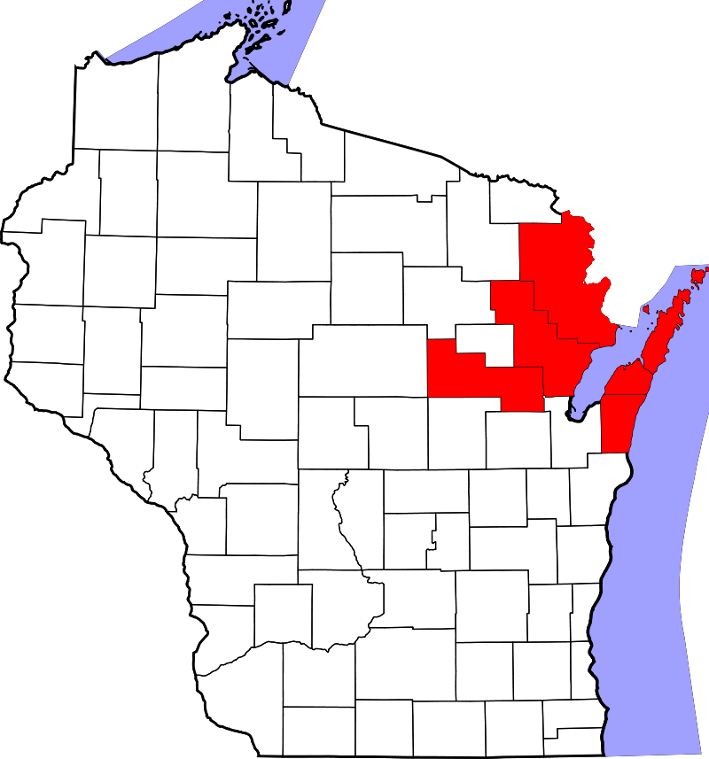 Wisconsin Senate District 1 boundaries as of 1877 redistricting, composed of Door, Kewaunee, Marinette, Shawano, and Oconto counties